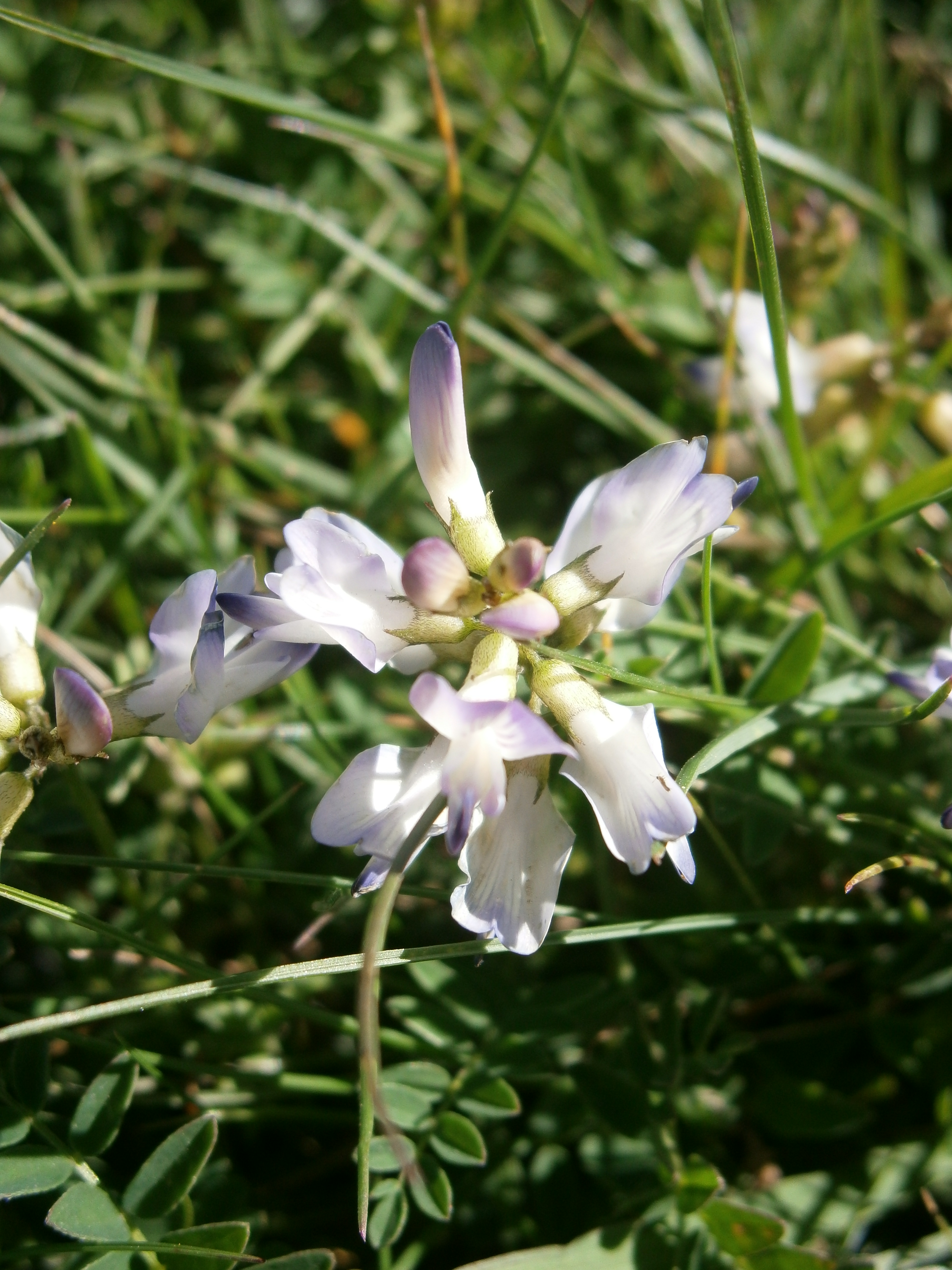 Astragalus alpinus close-up